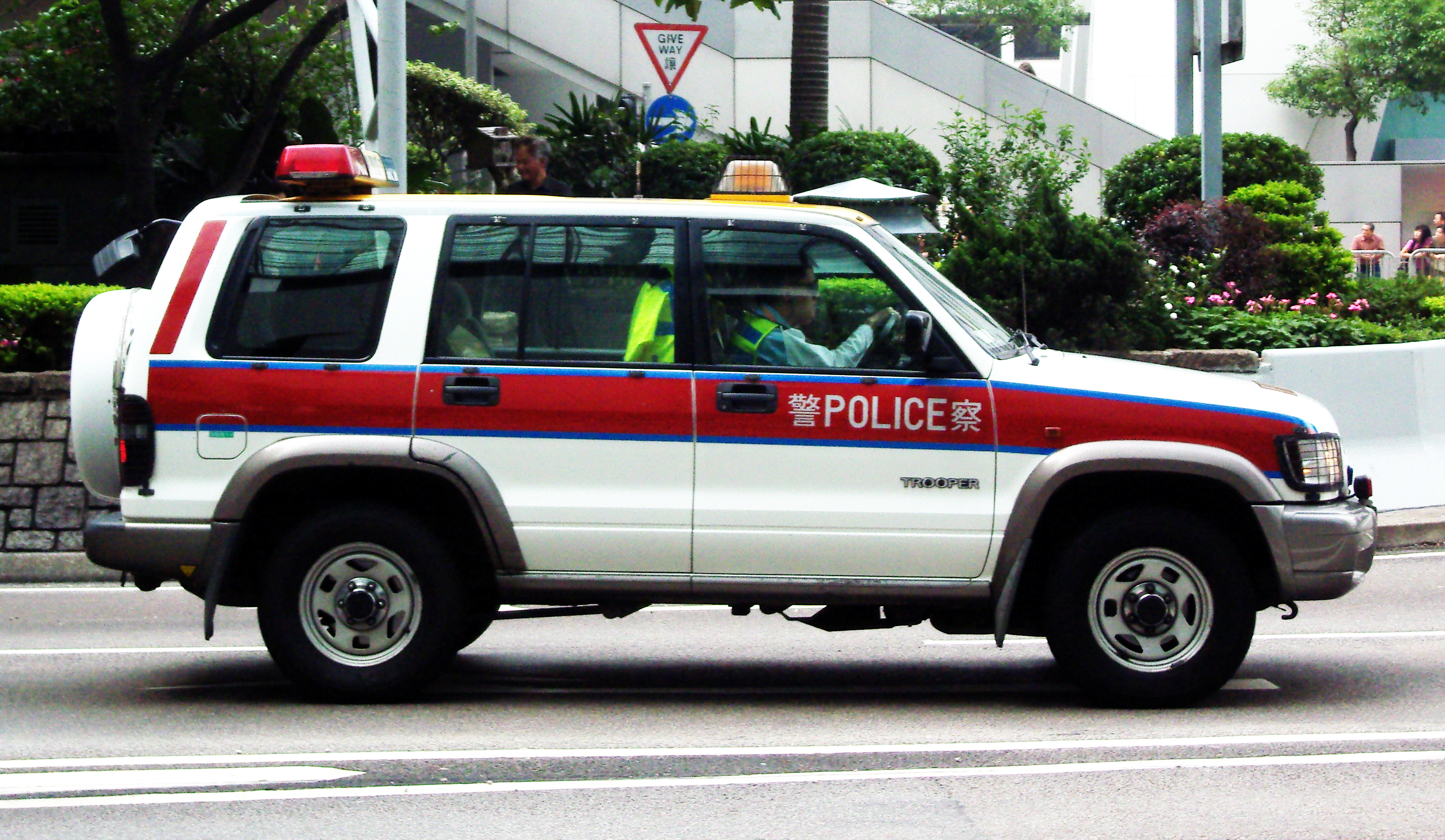 2008 Summer Olympics Torch in Central, Hong Kong.